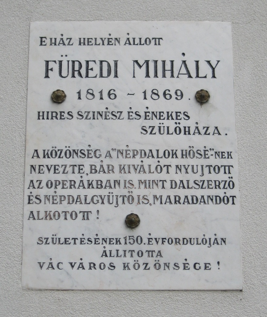 Mihály Füredi commemorative plaque in Vác. Füredi Mihály Street No 6.